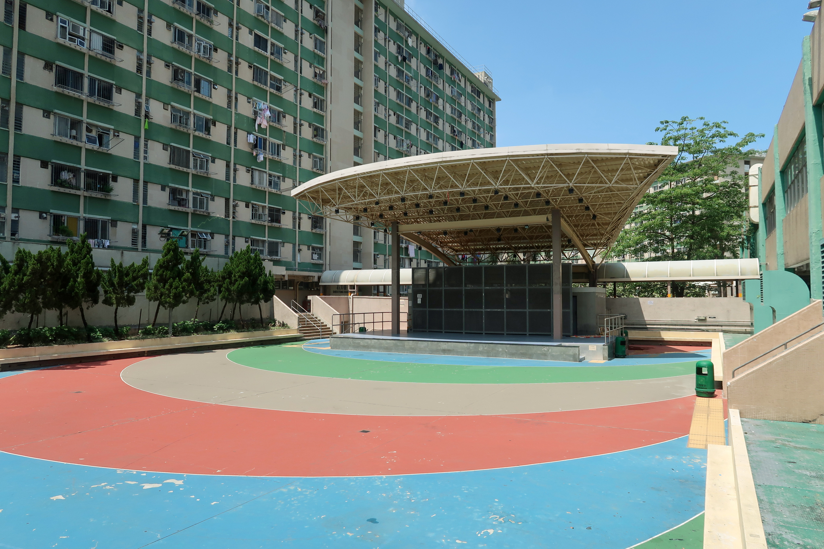 Shek Wai Kok Estate Event space